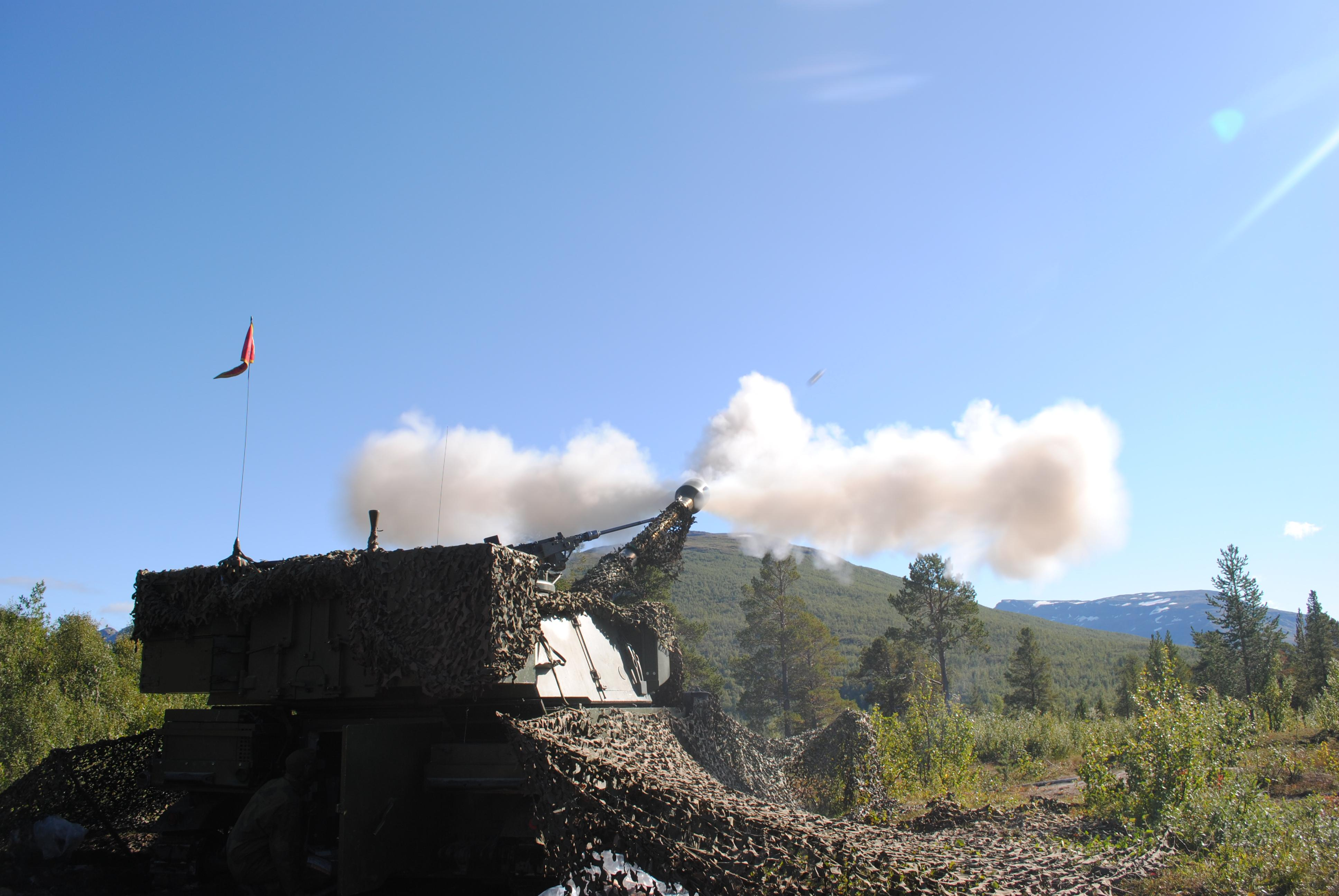 M109A3GNM fra Batteri Olga i Setermoen Skytefelt sommeren 2010.